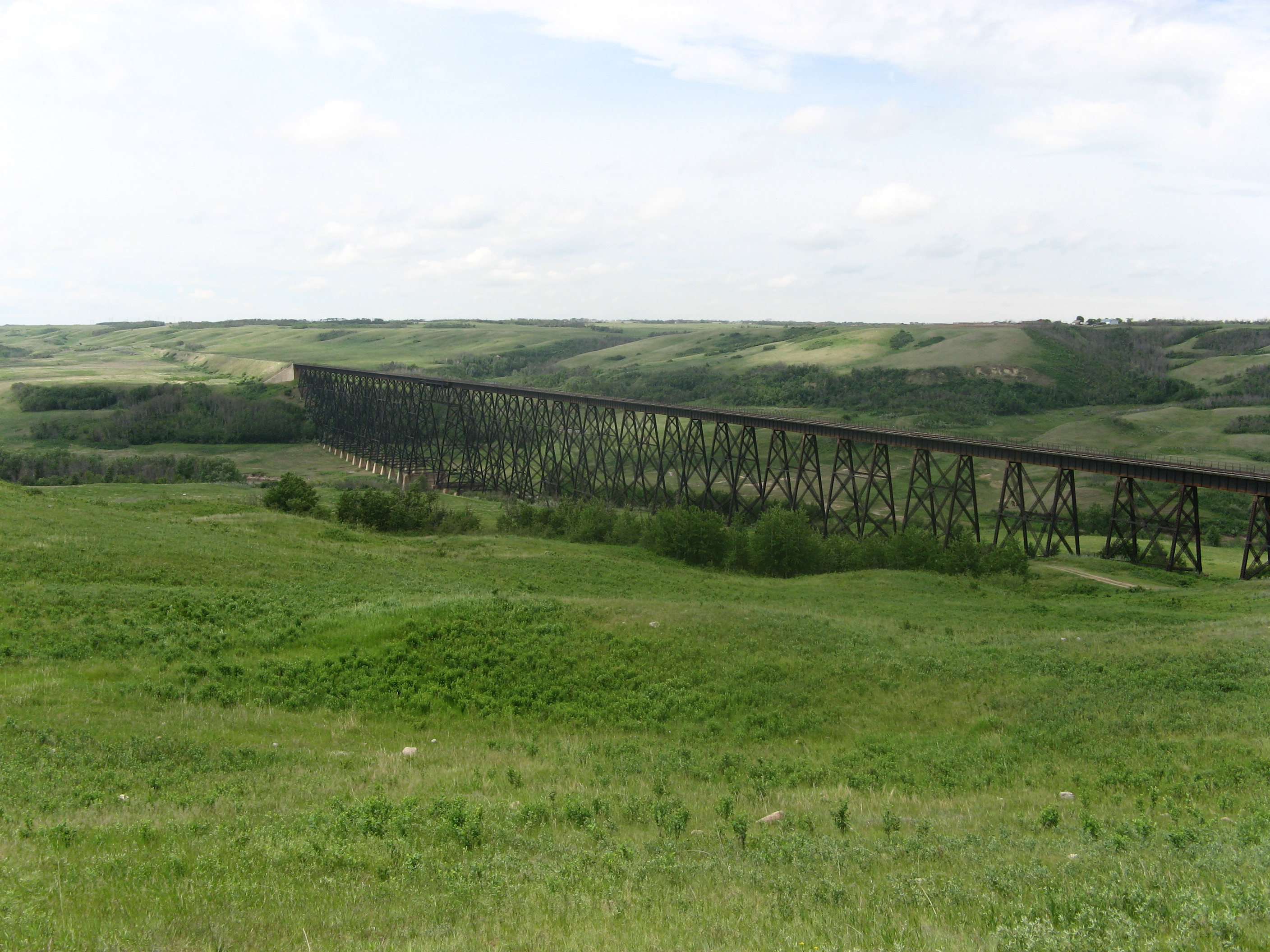 Erik Lizee - Author